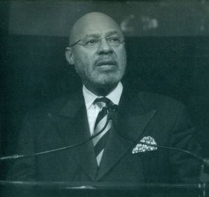 This is an image depicting former Mayor of Detroit, Dennis Archer.